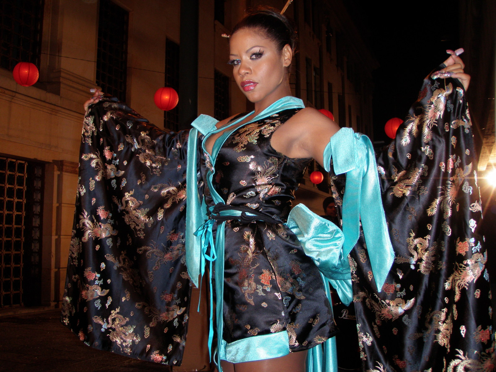 During the shooting of her video "Amiga"